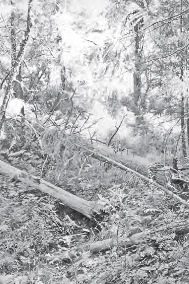 Photograph of the canyon where in 1901 the Smith Gang fought against a posse of Arizona Rangers and duputies.